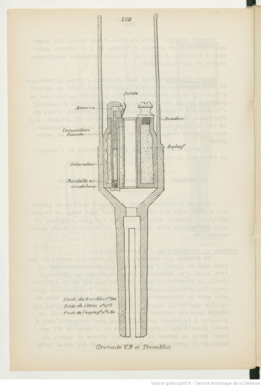 Viven-Bessières rifle grenade and discharger, cutout view